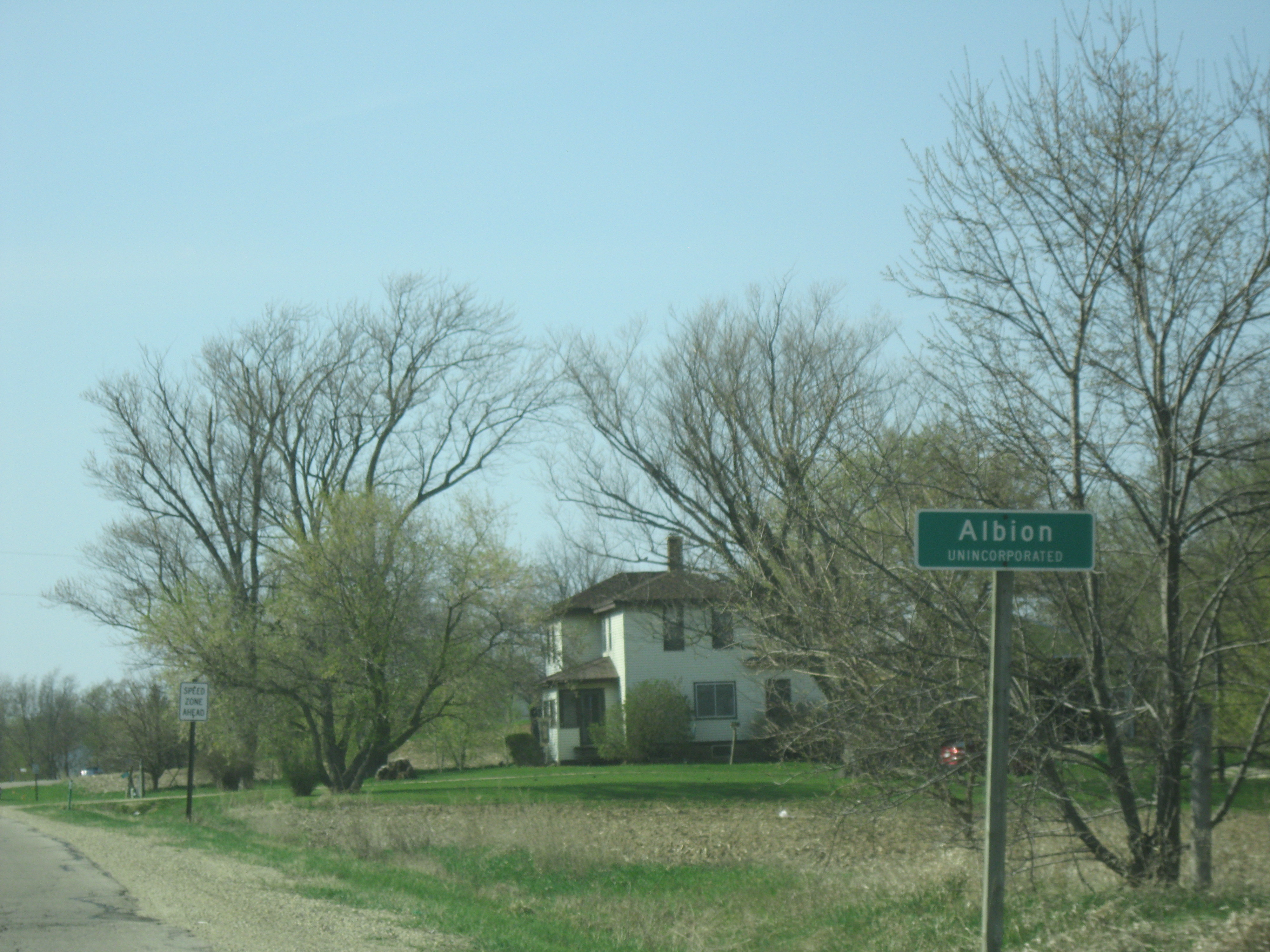 Entering the community of Albion, Wisconsin.